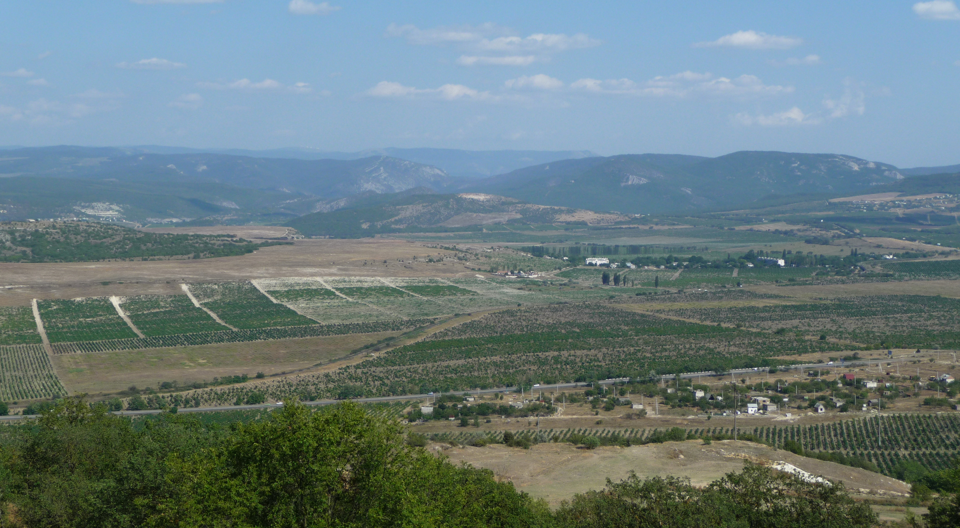 Balaclava valley, view from the Sapun Mountain. Vineyard. Approximately it is "the Valley of Death" in 1854.